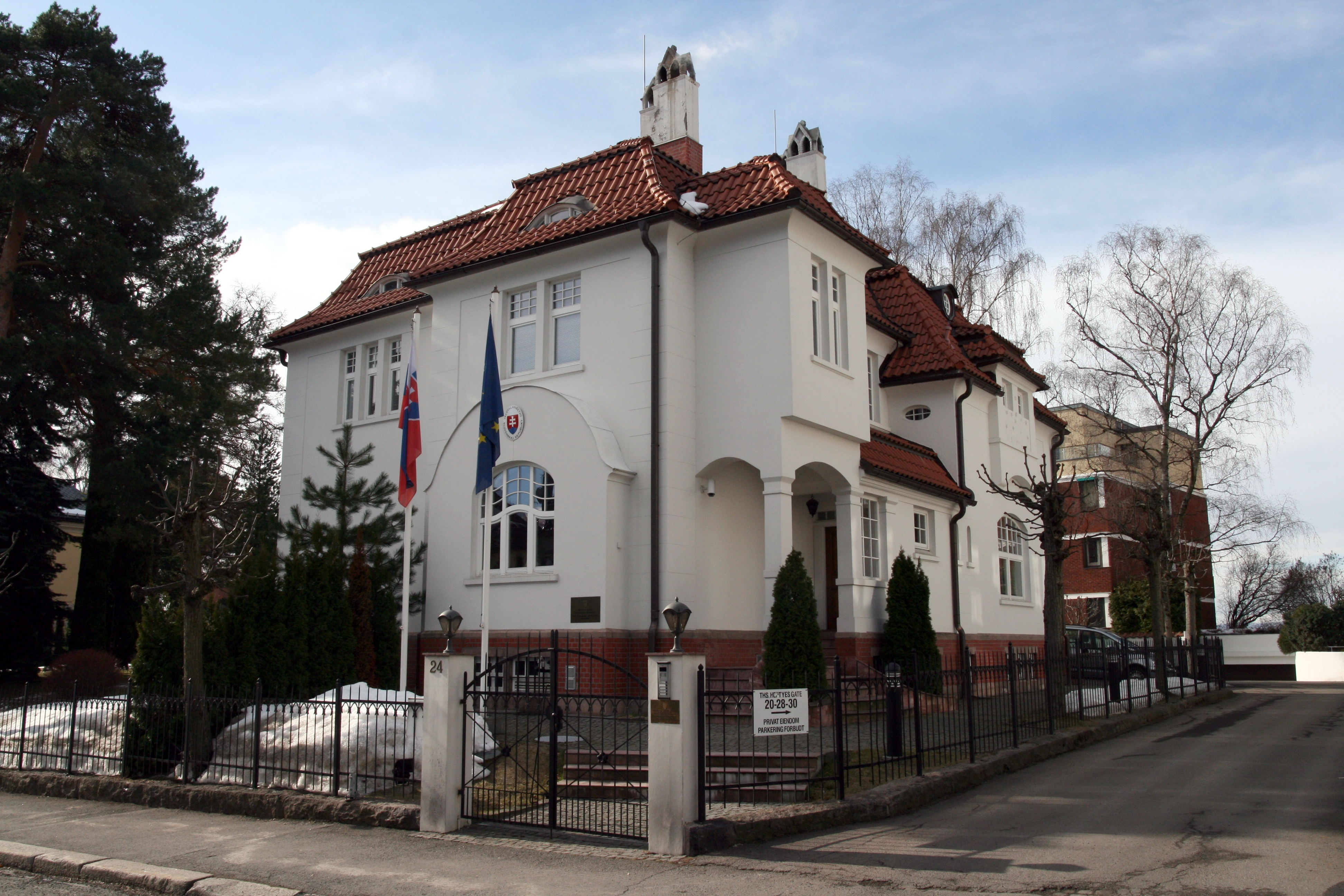 The embassy of Slovakia, Oslo.